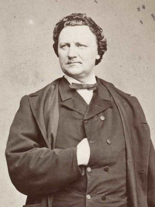 Depicted person: Nicolay Wolf – Danish actor